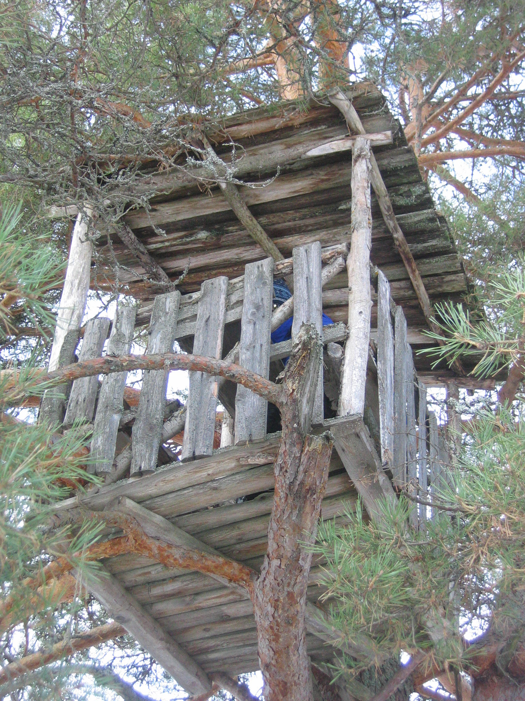 A wooden play hut built in a tree in Finland.